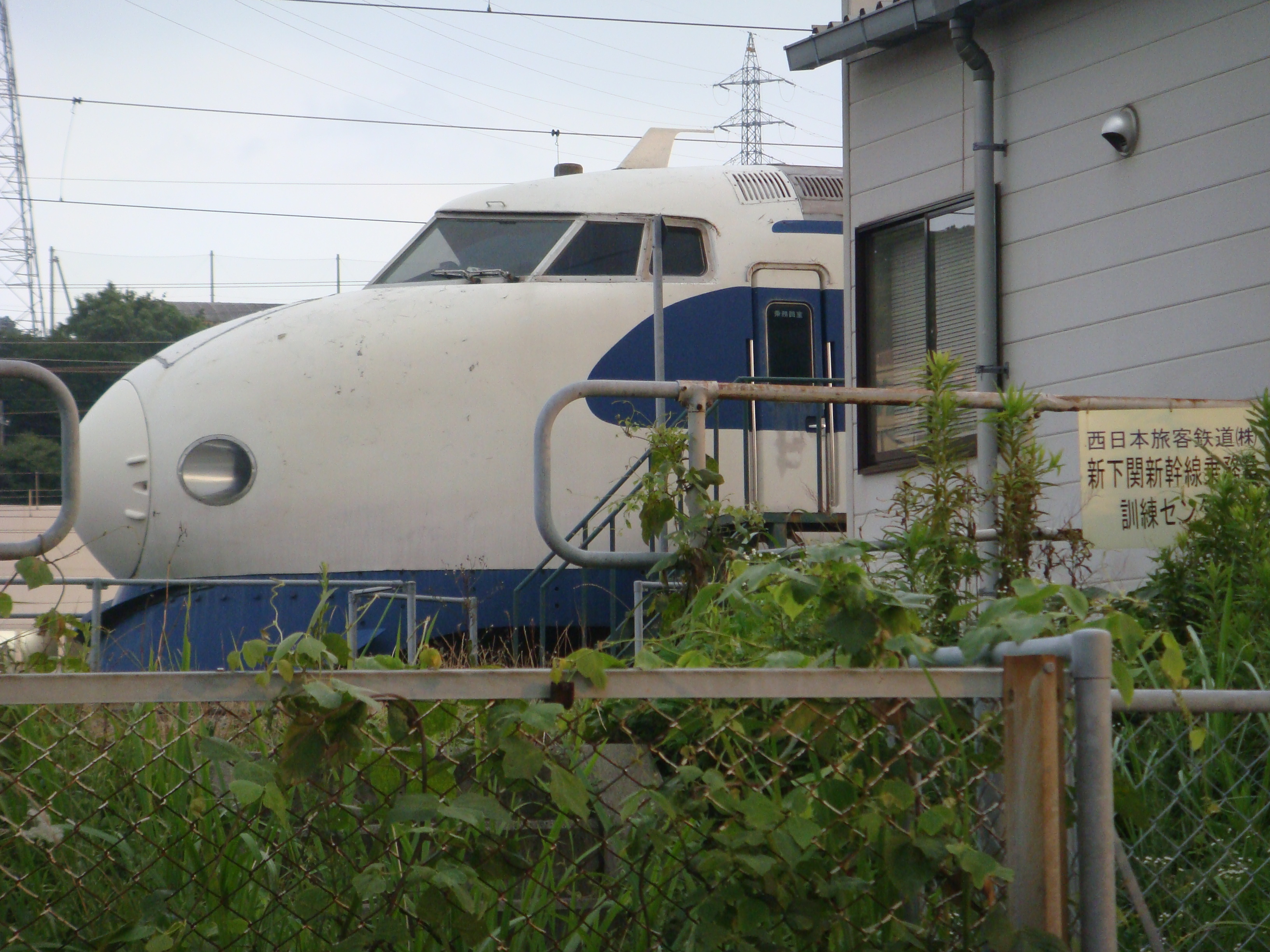 JR West Shin-shimonoseki Shinkansen Crew Training Center (Train Q3 of Shinkansen 0)